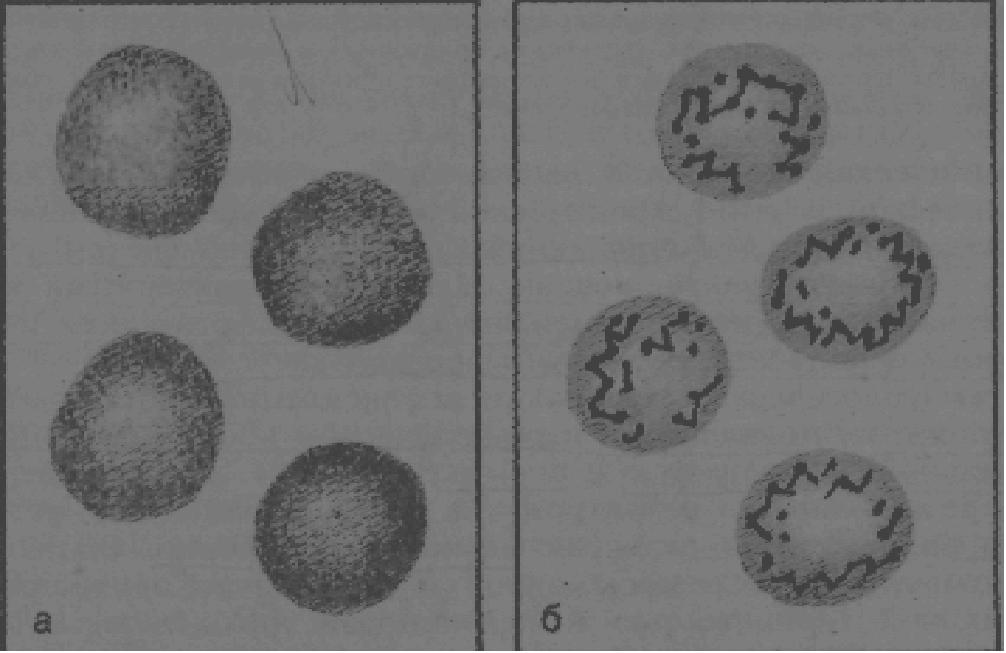 Қорғасынмен улану кезіндегі эритроциттердің формасы, а – қалыпты кездегі эритроциттер; б - ретикулоциттер.